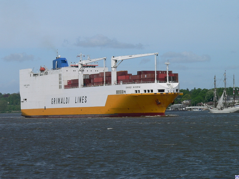 ConRo-Ship Grande Nigeria upcoming Hamburg Length: 214,00 m Speed: 20,0 Kn DWT: 24.800 Build: 2003; Fincantieri-Cantieri Navali Italiani S. p. A. (Triest, Italy) Trucks: 2.500